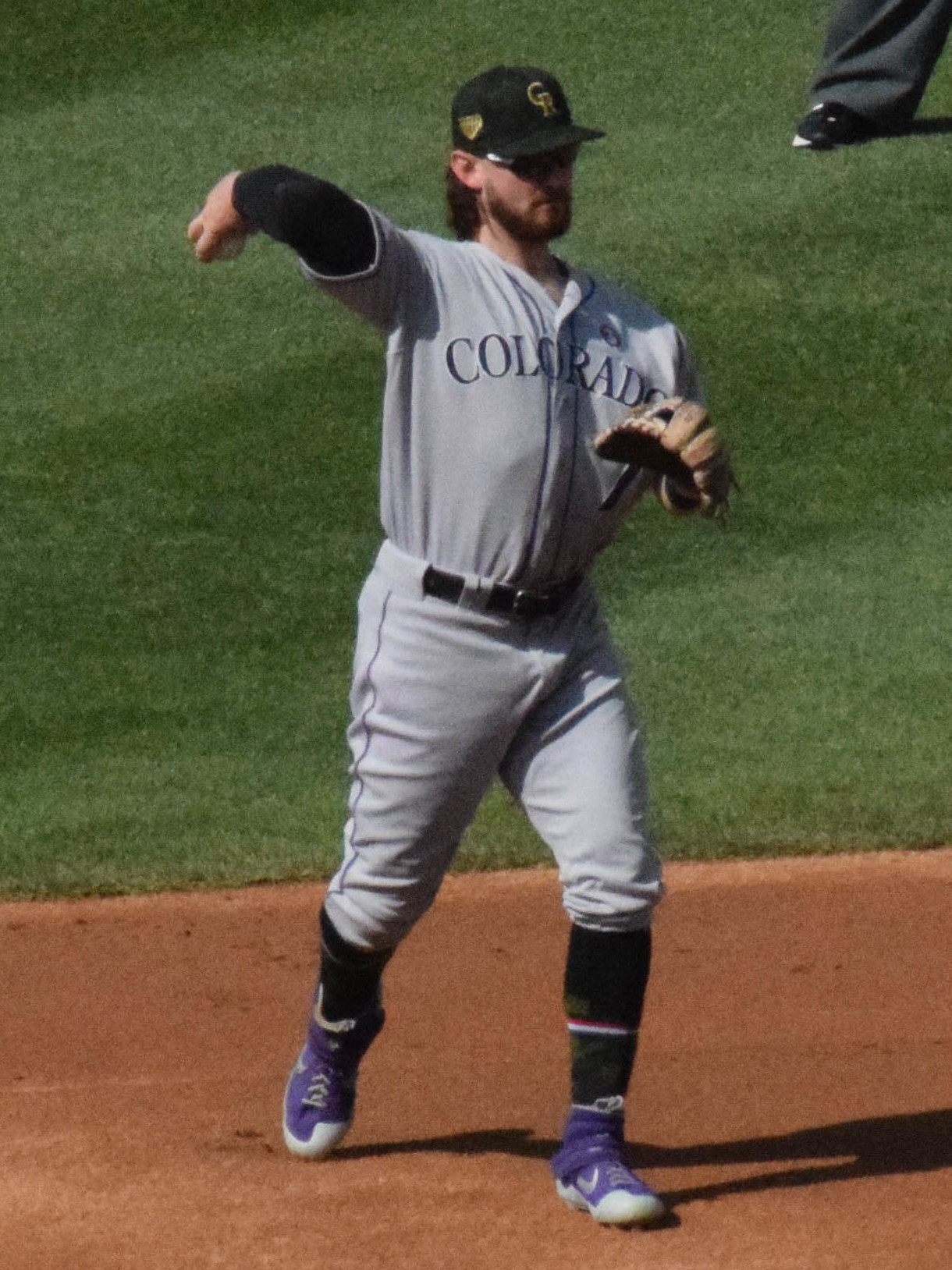 Brendan Rodgers of the Colorado Rockies during a 2019 game at Citizens Bank Park in Philadelphia.